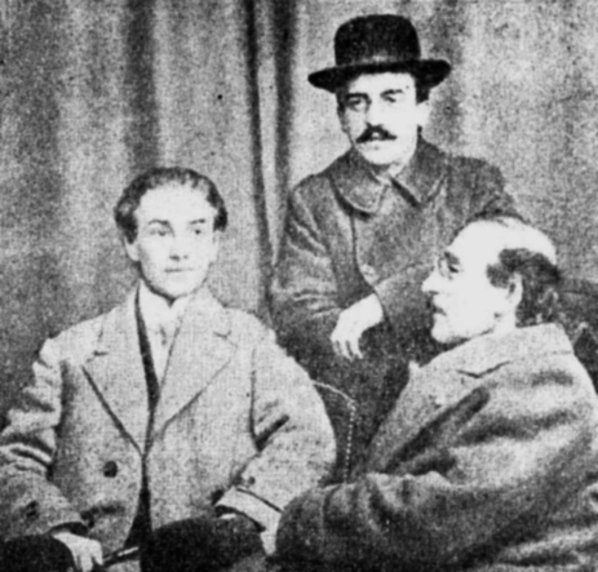 Romanian poet Alexandru Macedonski (seated, right), his son Alexis (standing) and epigrammatist Oreste Georgescu.